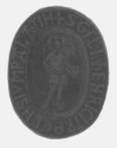 Henry II of Champagne